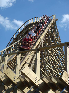 Renegade - a GCII (Great Coasters International, Inc.) wooden roller coaster located at Valleyfair Amusement Park in Shakopee, MN.